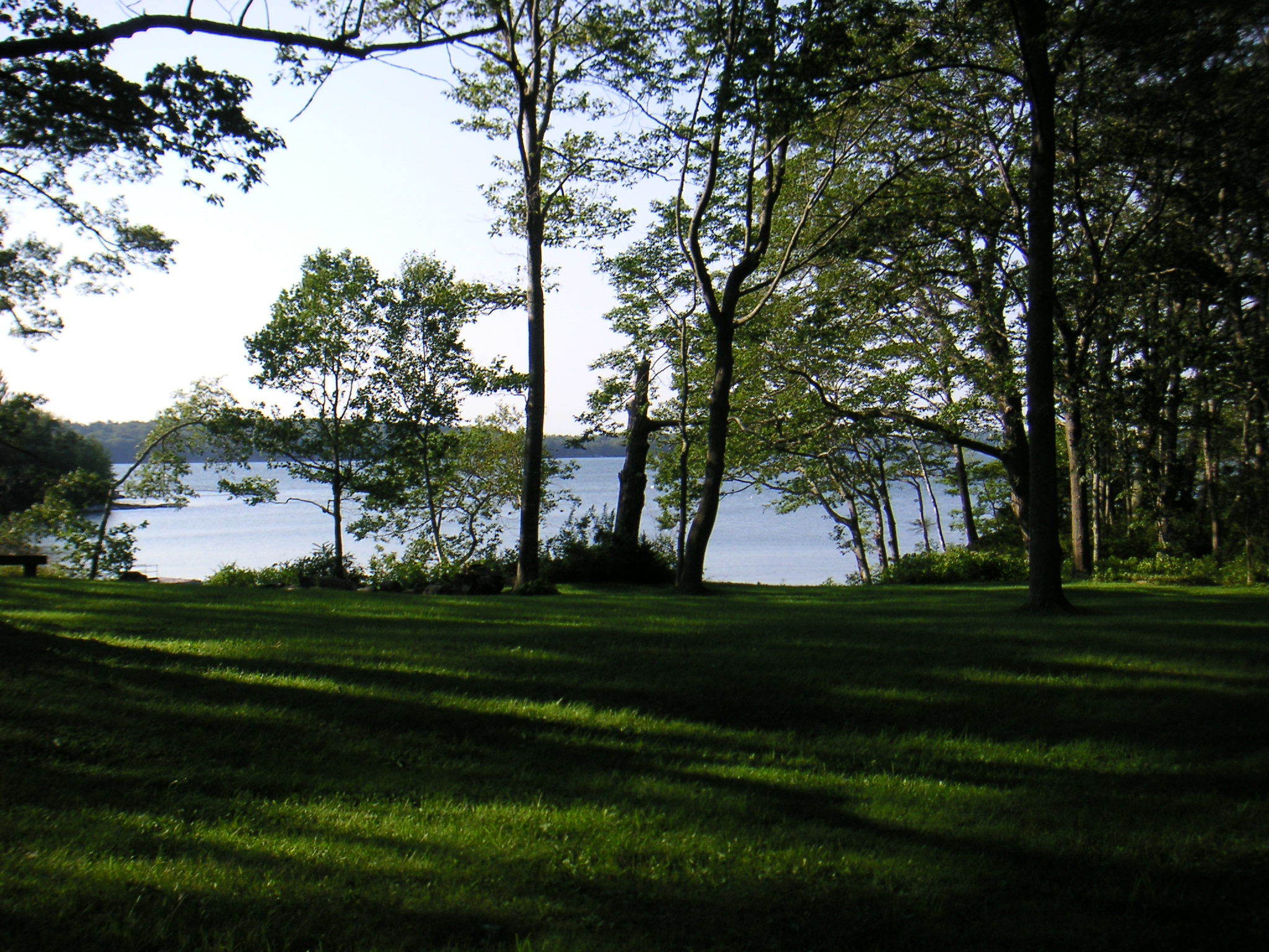 A view of the water from the Harpswell Inn, Harpswell, Maine.